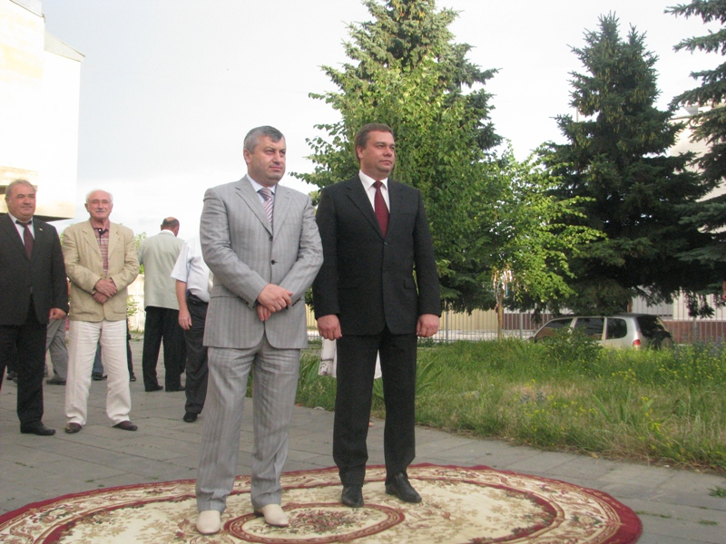 President Eduard Kokoity (left) and Prime Minister Vadim Brovtsev (right) of South Ossetia at the 2010 graduation party in Tskhinvali.